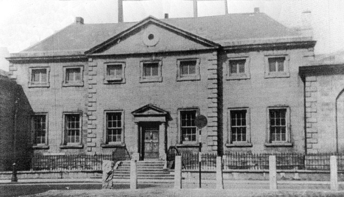 Photograph of the Westmoreland Lock Hospital, Townsend St., Dublin